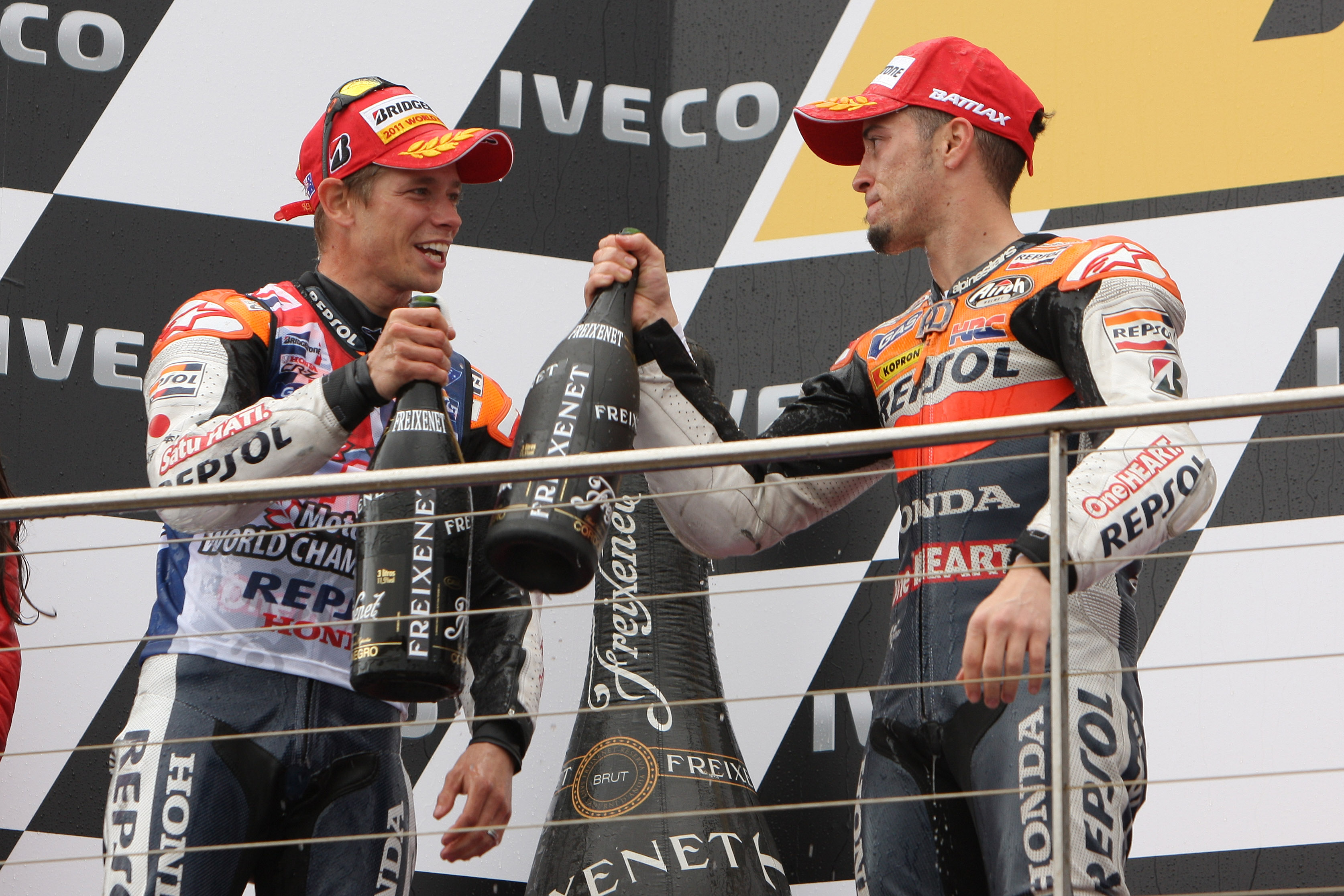 Casey Stoner and Andrea Dovizioso, toasting with the champagne and celebrating on the podium after finishing in first and third position at the 2011 Australian Grand Prix.